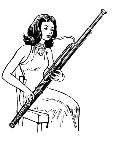 Line art drawing of a female bassoon player.